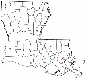 a bunch of black lines and a red dot